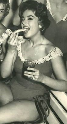 Tita Russ-bailarina y vedette argentina